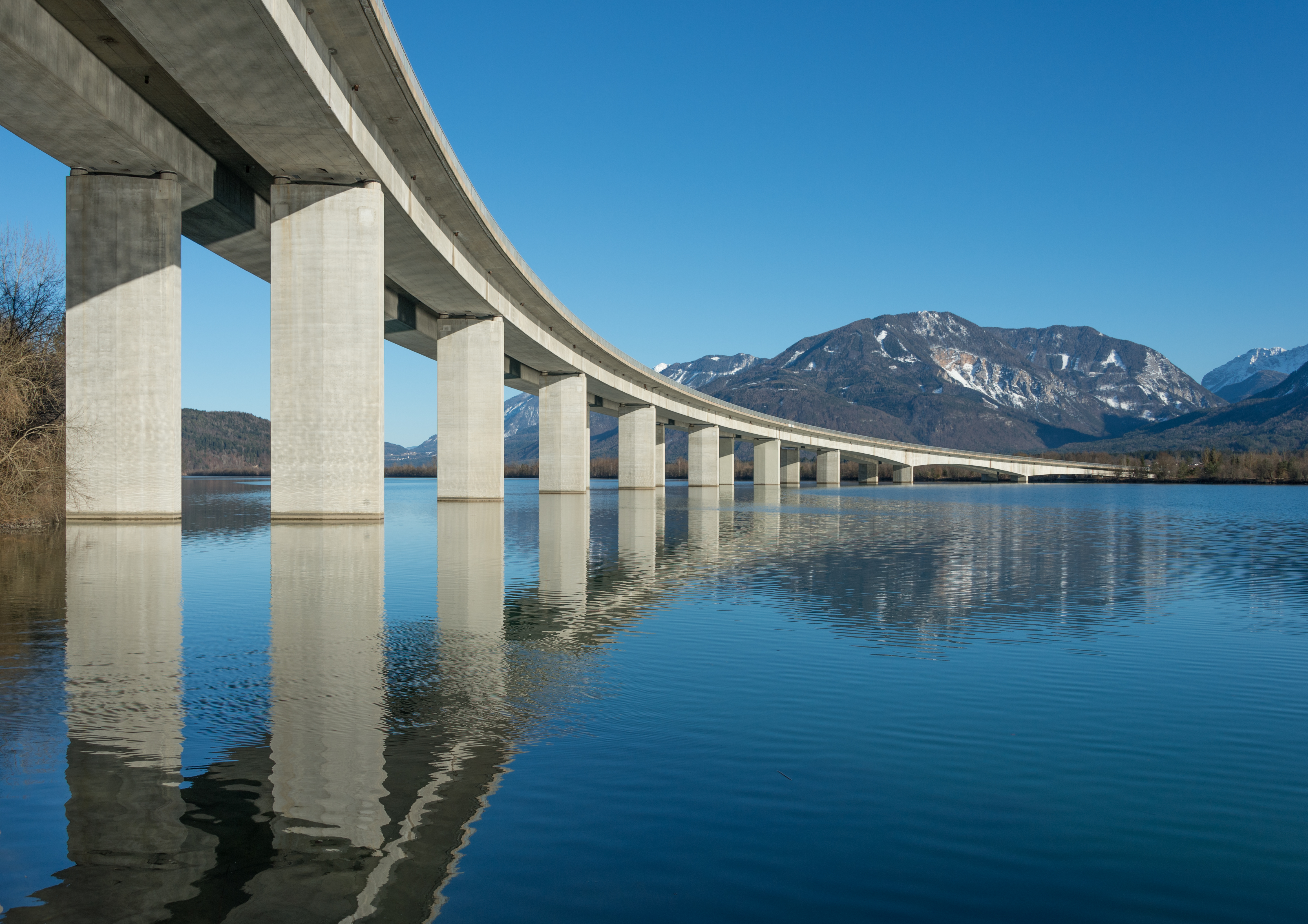 Road bridge of the “Loiblpass Strasse B91” across the Ferlach reservoir of the river Drava at Unterschlossberg (submontane the castle Hollenburg), municipality Koettmannsdorf, district Klagenfurt Land, Carinthia, Austria, EU